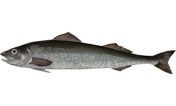 Sablefish, Anoplopoma fimbria